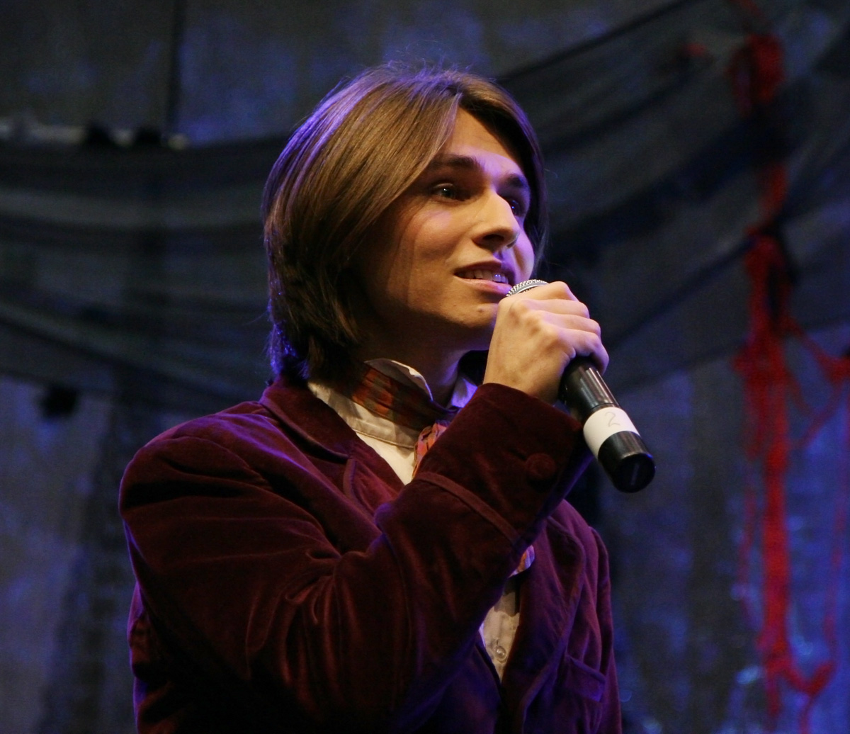 Jakub Molęda as Alfred - "The Dance of the Vampires" musical promotional show, Reduta Mall, Warsaw.